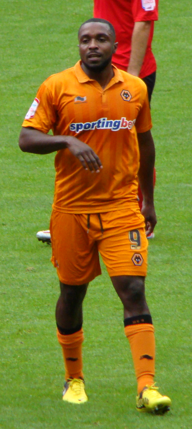 Sylvan Ebanks-Blake. Image cropped from original at flickr.